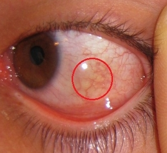 An eye showing a swollen region on the conjunctiva due to a light allergic chemosis.